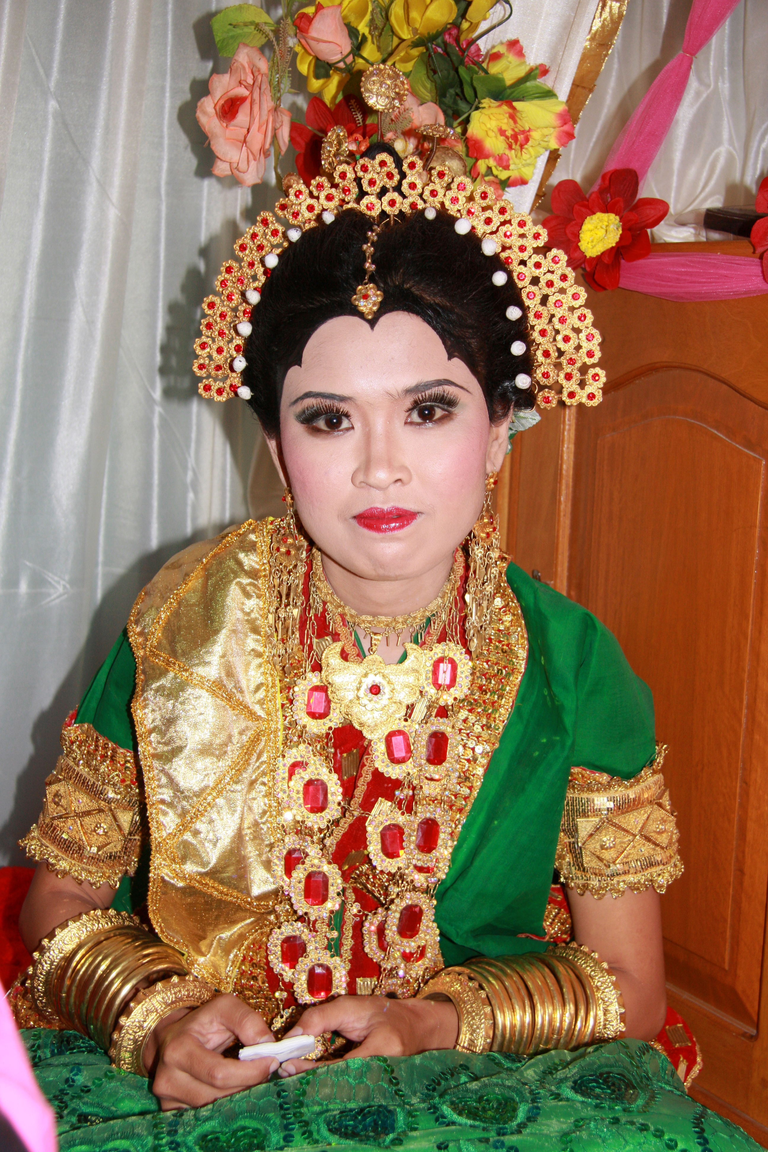 Wedding Toraja in Sulawesi